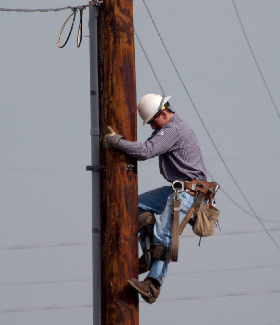 A worker climbing down an electricity pole, taken in Urbana, IL